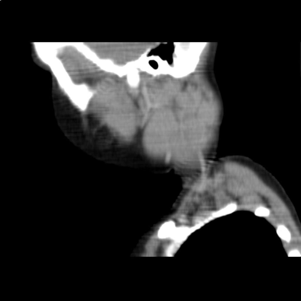 Computed tomography of the throat in highly-malignant non-hodgkin lymphoma present as lymph node swelling in a child (sagittal reconstructed section).